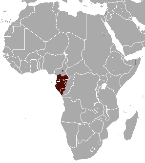 Gabon Talapoin (Miopithecus ogouensis) range